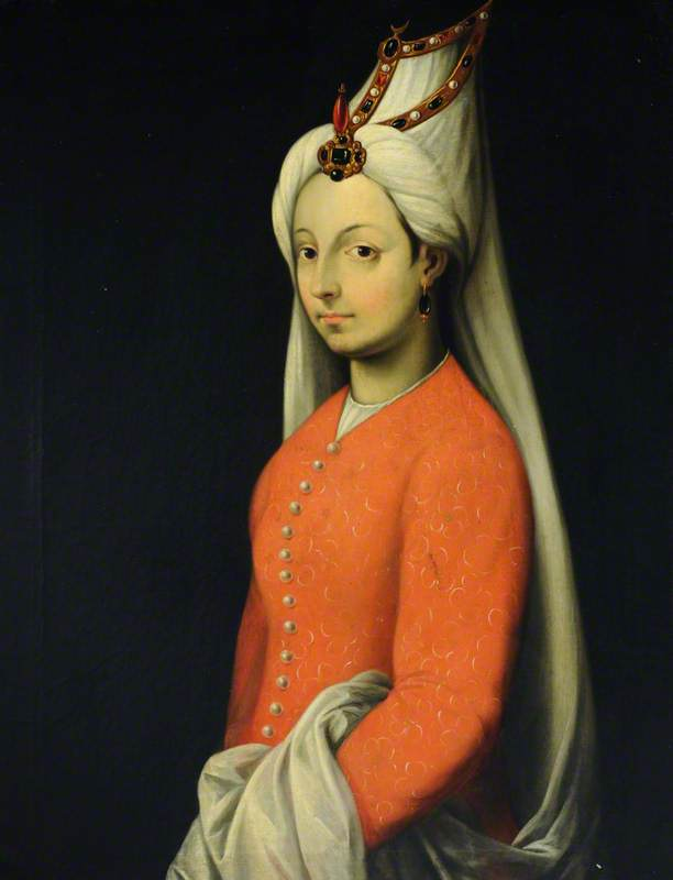 Cameria (Princess Mihrimah Sultan), Daughter of Suleiman the Magnificent (1522–1578).